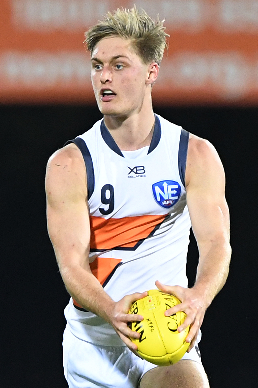 Jackson Hately of Greater Western Sydney during the 2019 NEAFL round 15 match between NT Thunder and Greater Western Sydney at TIO Stadium on Saturday, 13 July 2019 in Darwin, Australia.